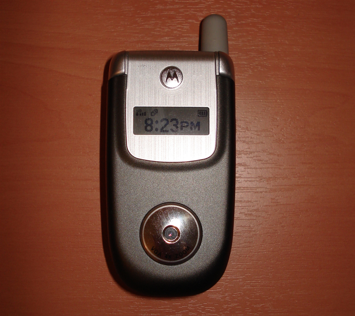 Motorola v220 - Grey model. Photo by Hans G. Roht released for the public domain